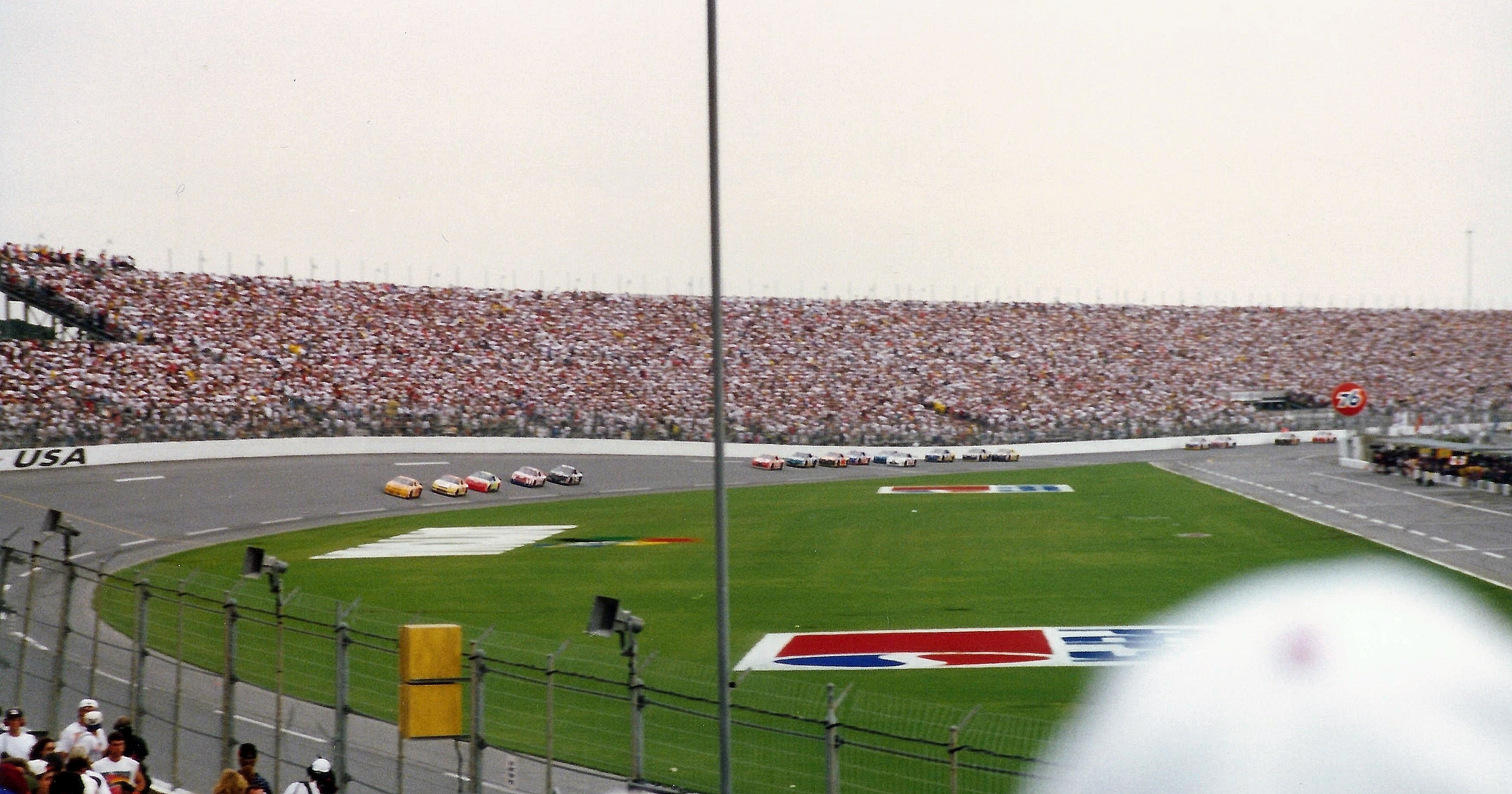 The 1996 Pepsi 400 at Daytona